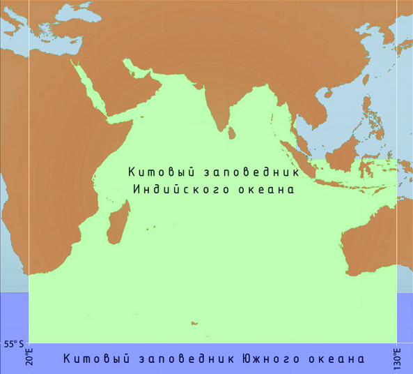 Indian Ocean Whale Sanctuary' borders (russian)